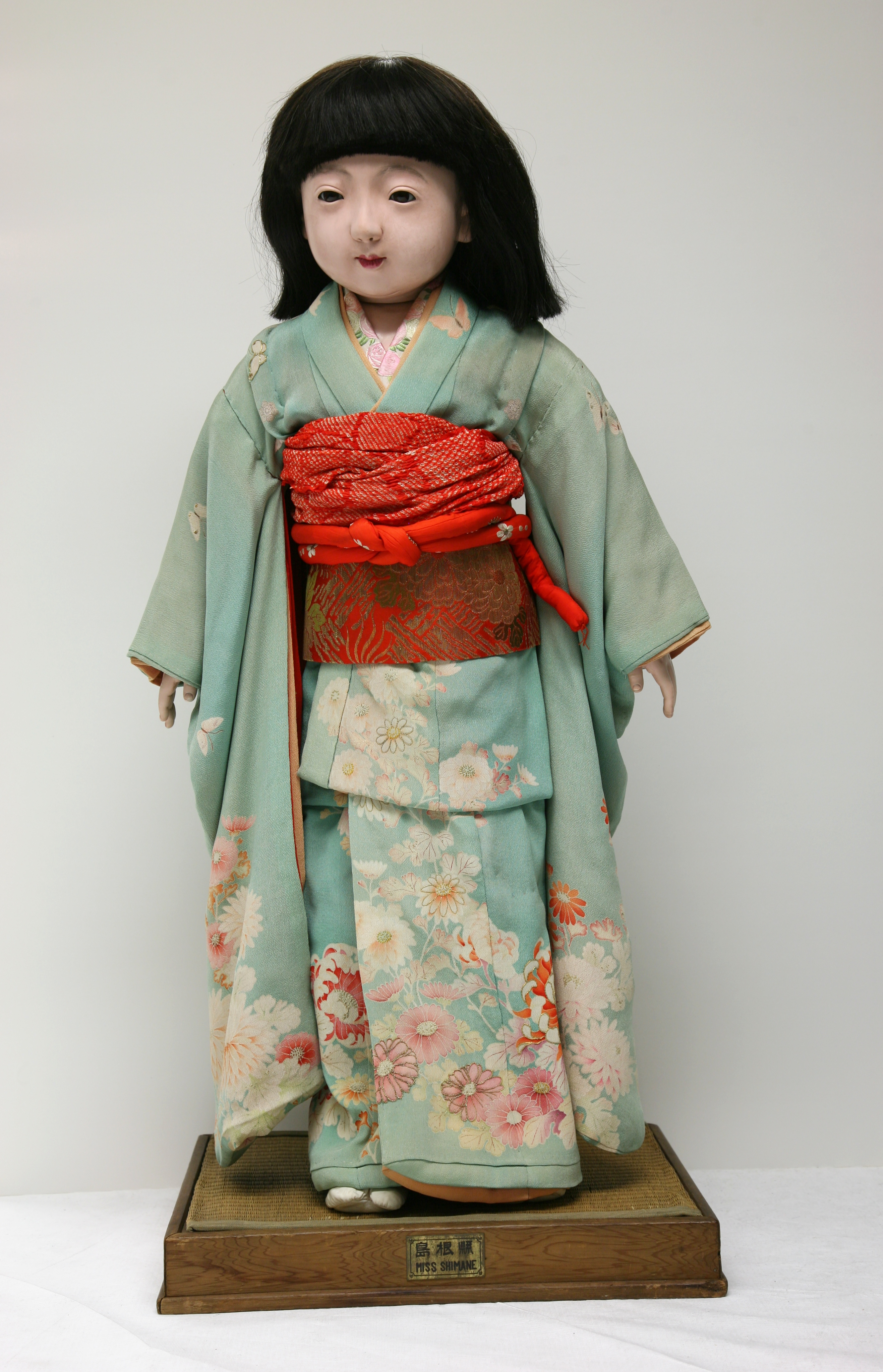 Miss Shimane Japanese friendship ambassador doll, The Children's Museum of Indianapolis.